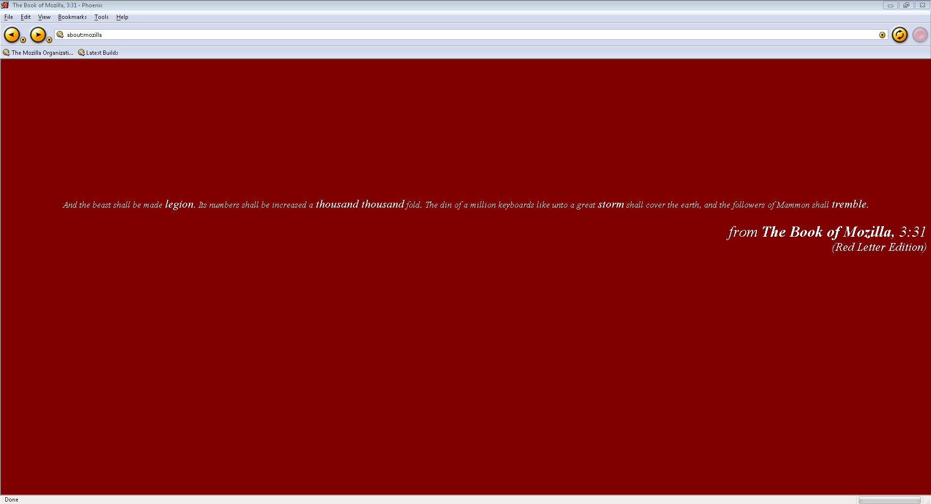 The Book of Mozilla in Phoenix 0.1